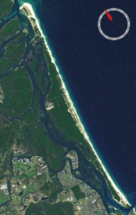 South Stradbroke Island NASA World Wind Landsat montage.